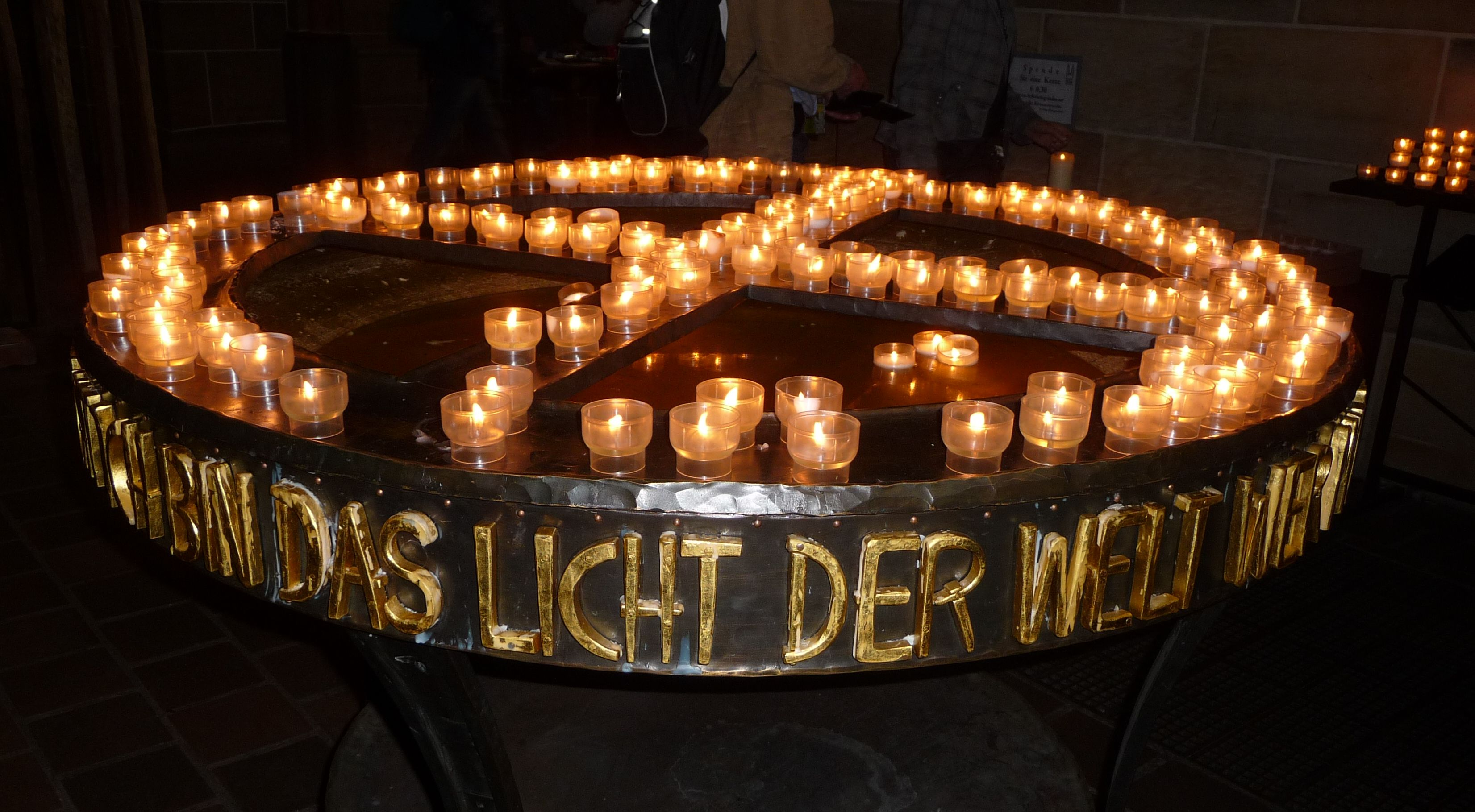 Candles in the Bremen Cathedral